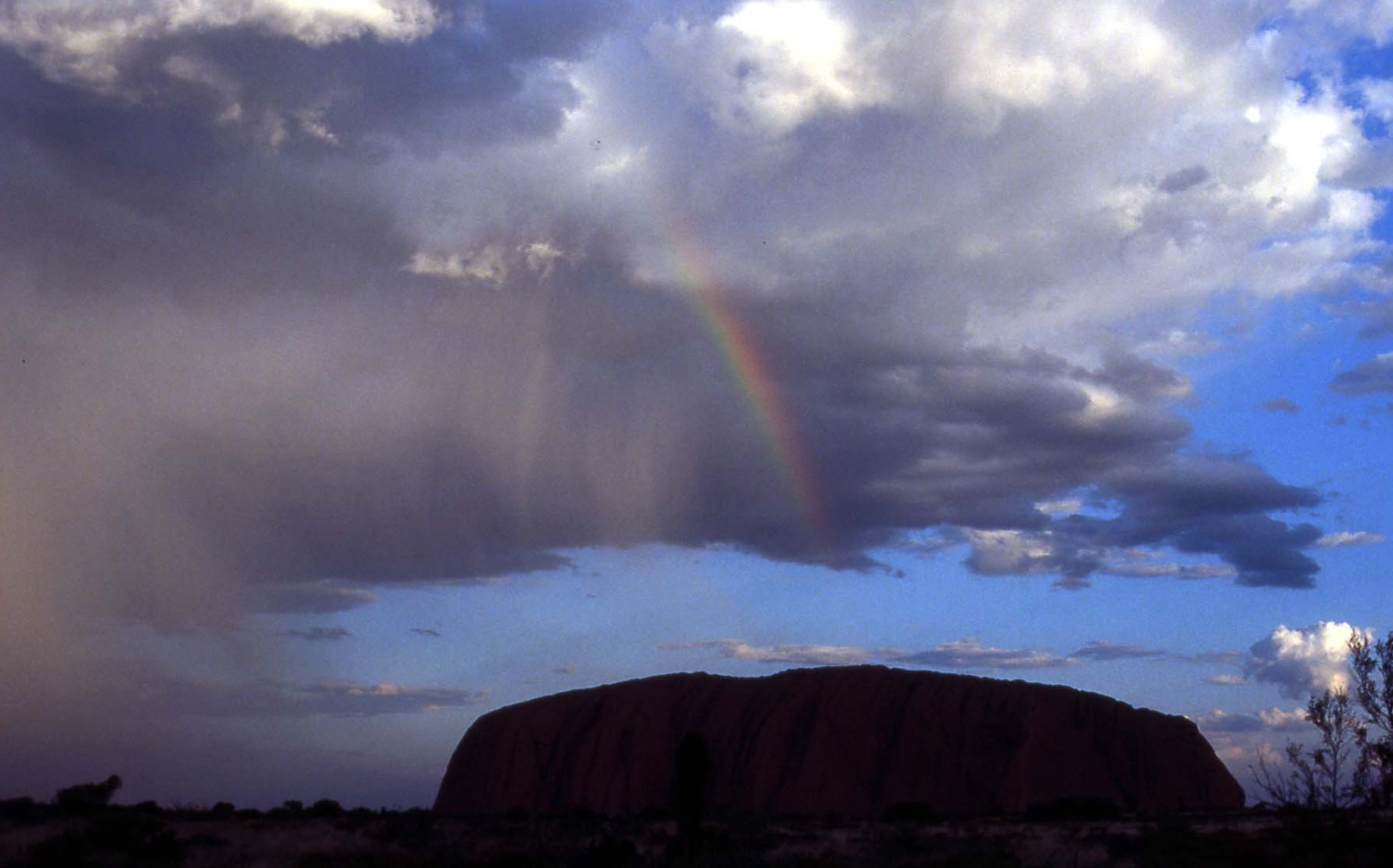 Uluru, previously called Ayres Rock, with rainbow. A very rare phenomenum! Uluru is in central Australia, where there is little rain. Cumulus stratus clouds. Source: German Wikipedia Bild:Australien 21.jpg, original upload 10. Okt 2004 by Peter Ruckstuhl (selfmade)